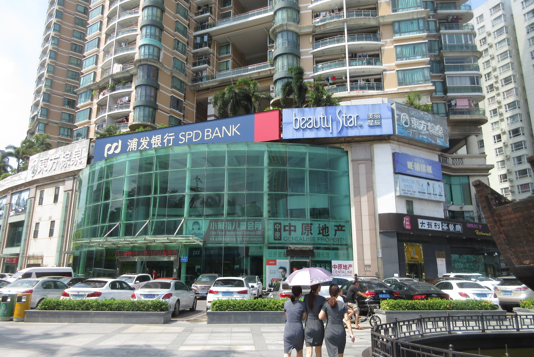 SZ 深圳 Shenzhen 福田 Futian 金田路 Jintian Road in October 2017